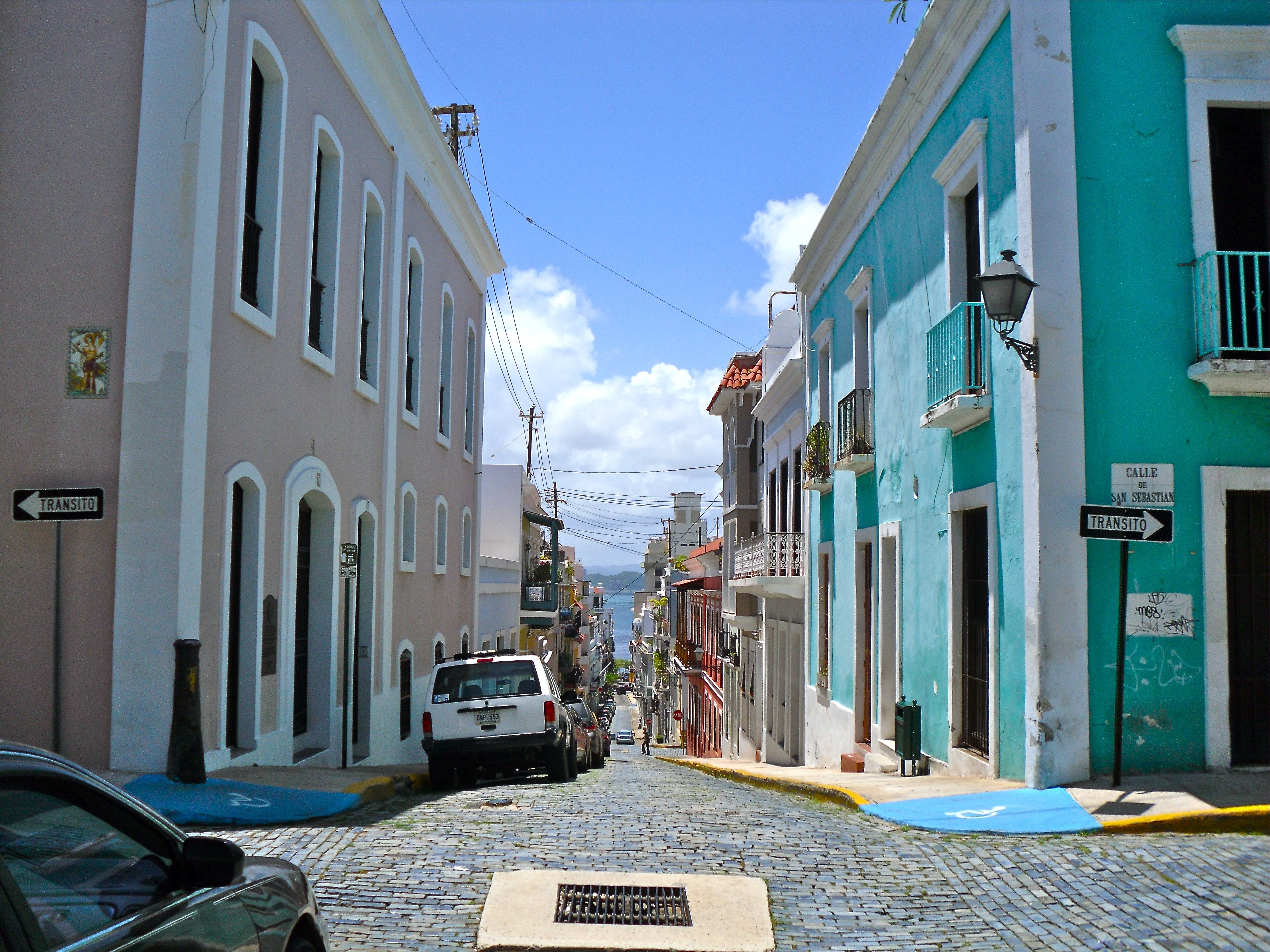 Looking South down San Justo at its intersection with San Sebastion. (San Juan, Puerto Rico)